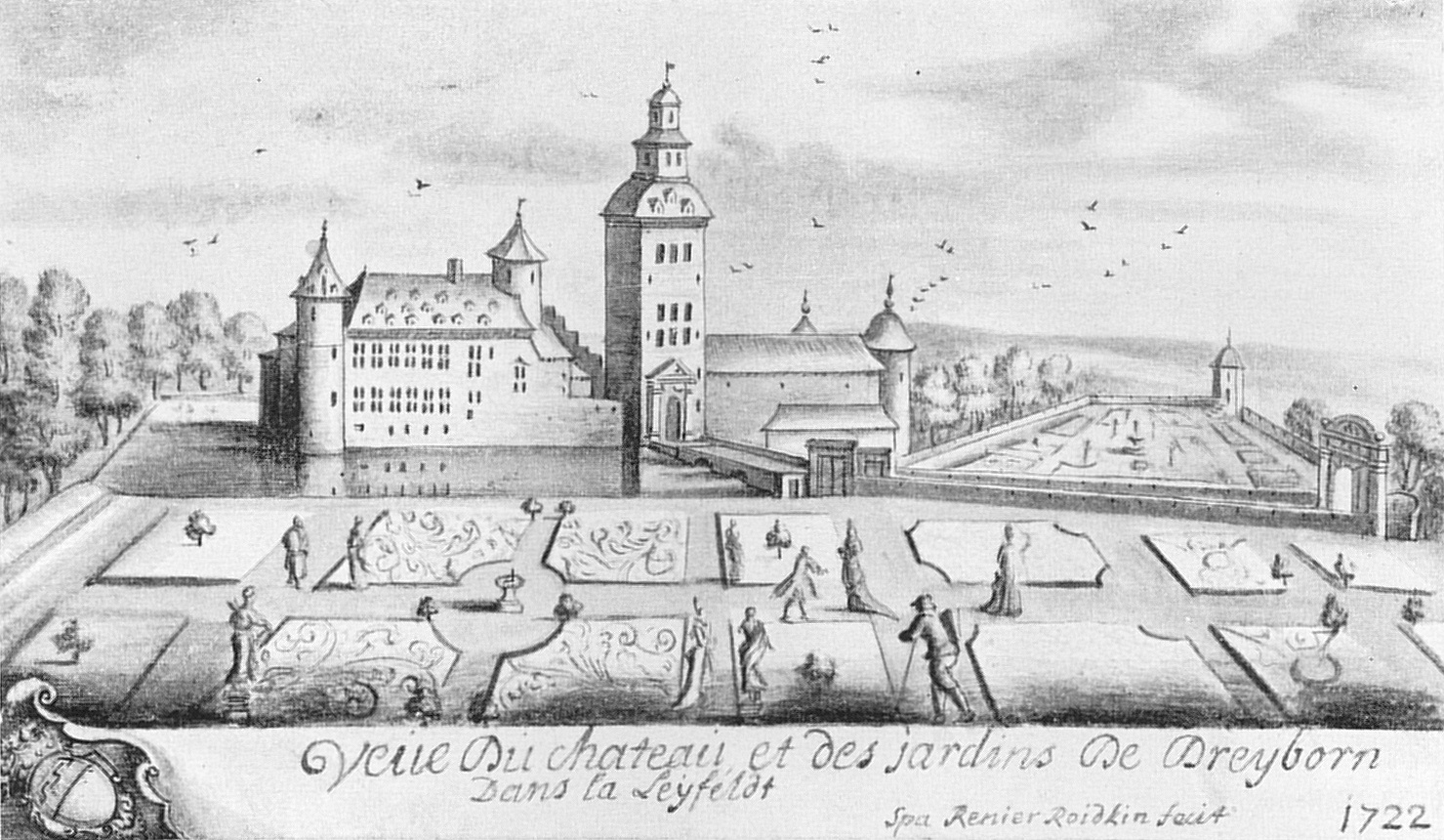 Ink drawing of the water castle Dreiborn in Schleiden